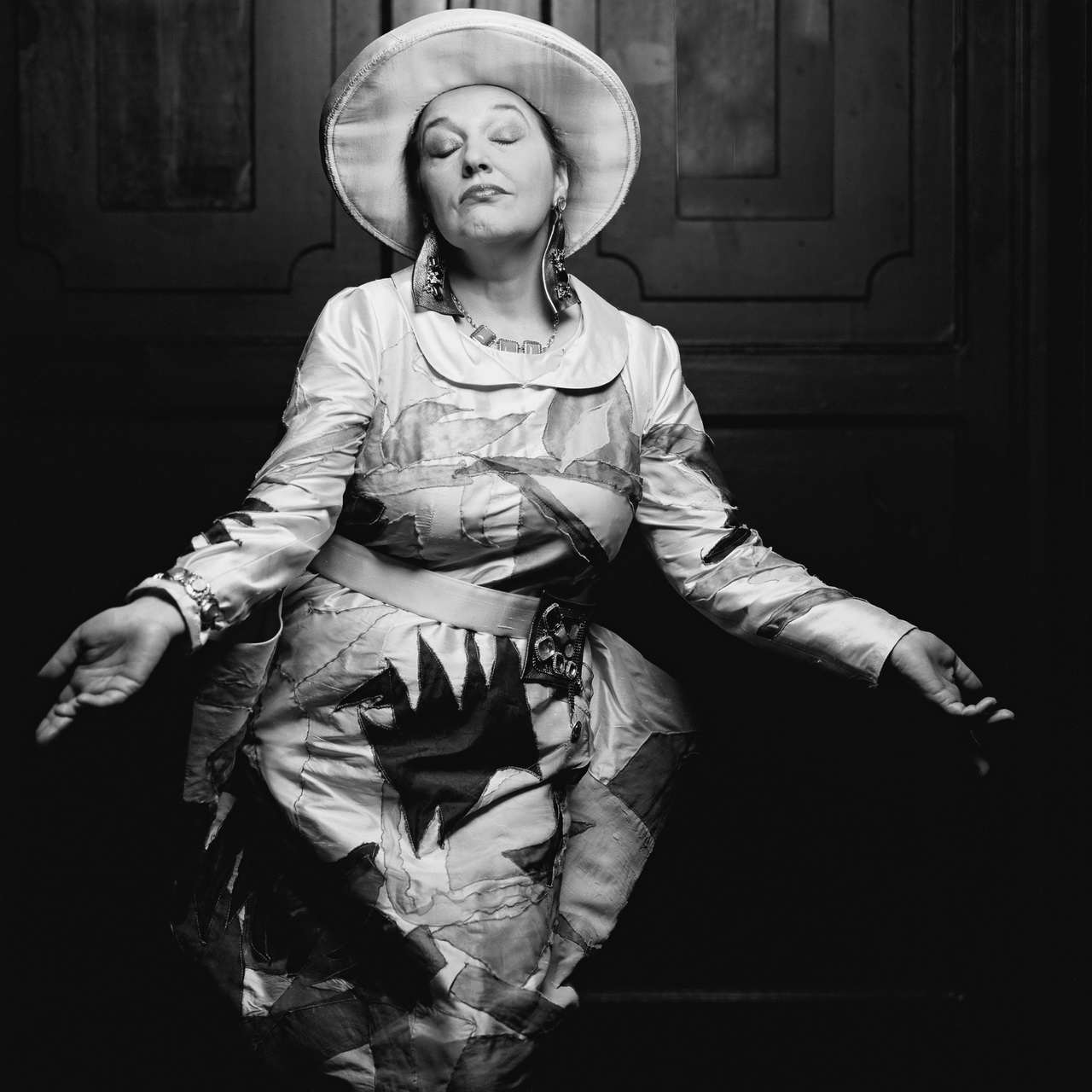 "The Minister's Wife", by Branislav Nušić, directed by Radoslav Milenković; Drama of the Serbian National Theatre, Novi Sad, 2013/14; Lidija Stevanović Srpski (latinica): „Gospodja ministarka” Branislava Nušića u režiji Radoslava Milenkovića; Drama Srpskog narodnog pozorišta, Novi Sad, 2013/14, Lidija Stevanović Српски (ћирилица): „Госпођа министарка“ Бранислава Нушића у режији Радослава Миленковића; Драма Српског народног позоришта, Нови Сад, 2013/14, Лидија Стевановић